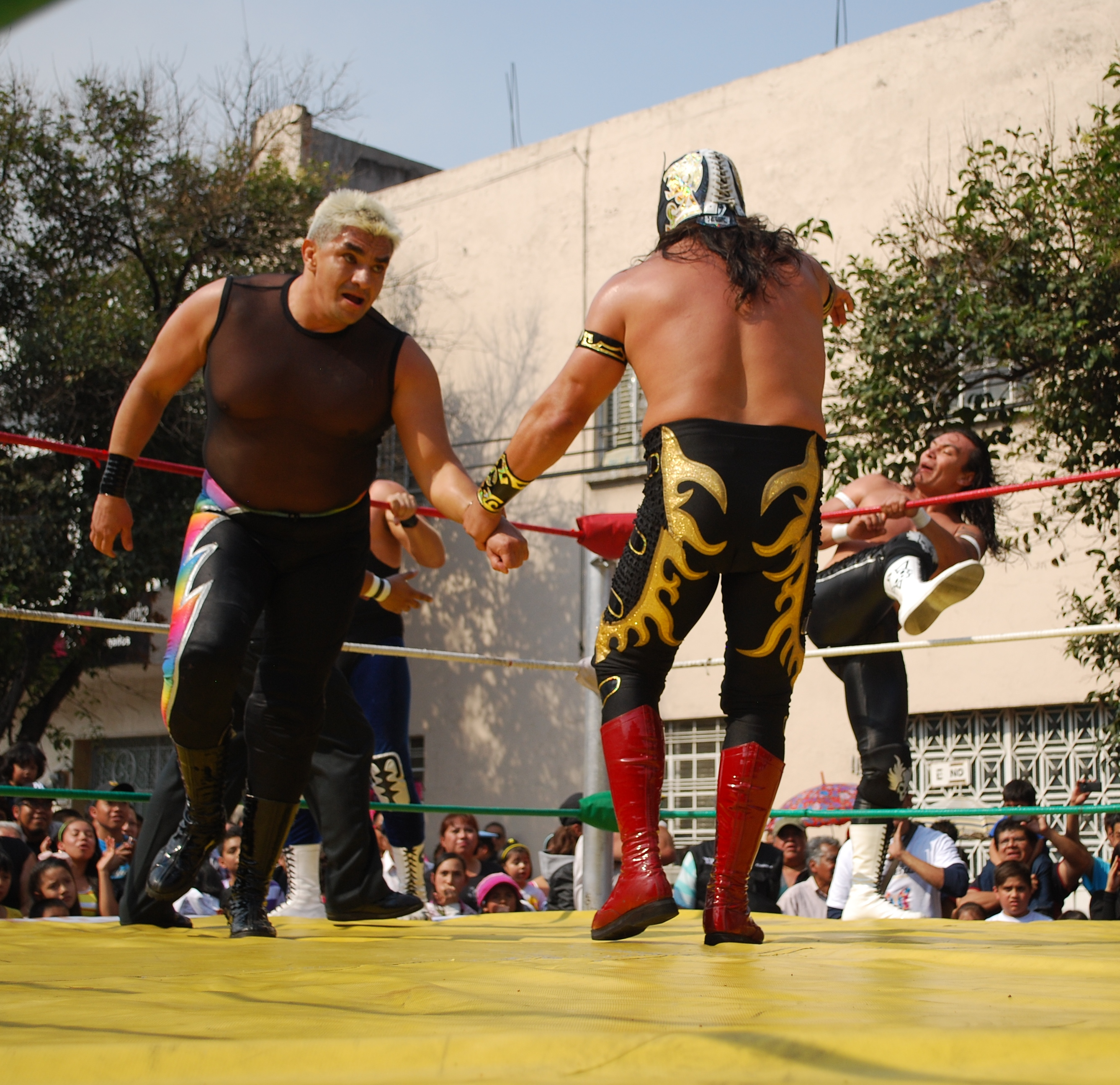 Ultimo Guerrero at the last match at a CMLL lucha libre event part of Festival Día de Reyes Territorial Obrera Doctores in Mexico City